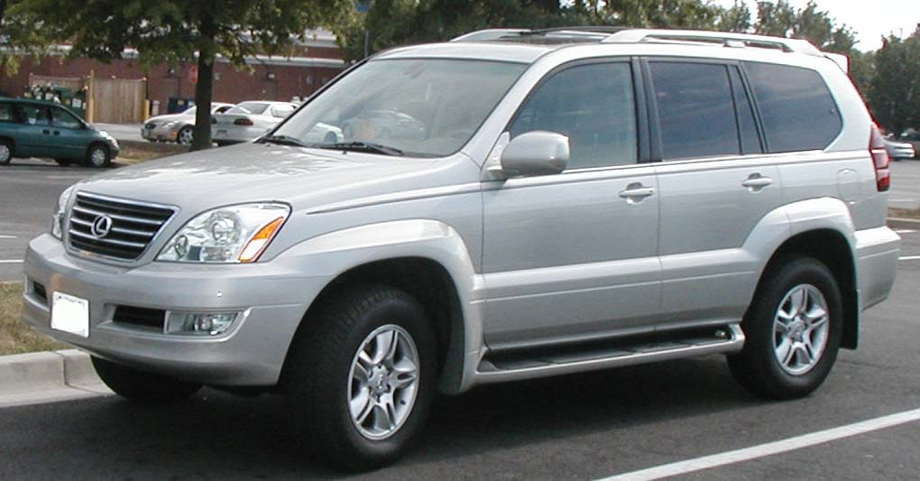 2003-2006 Lexus GX470 photographed in USA.